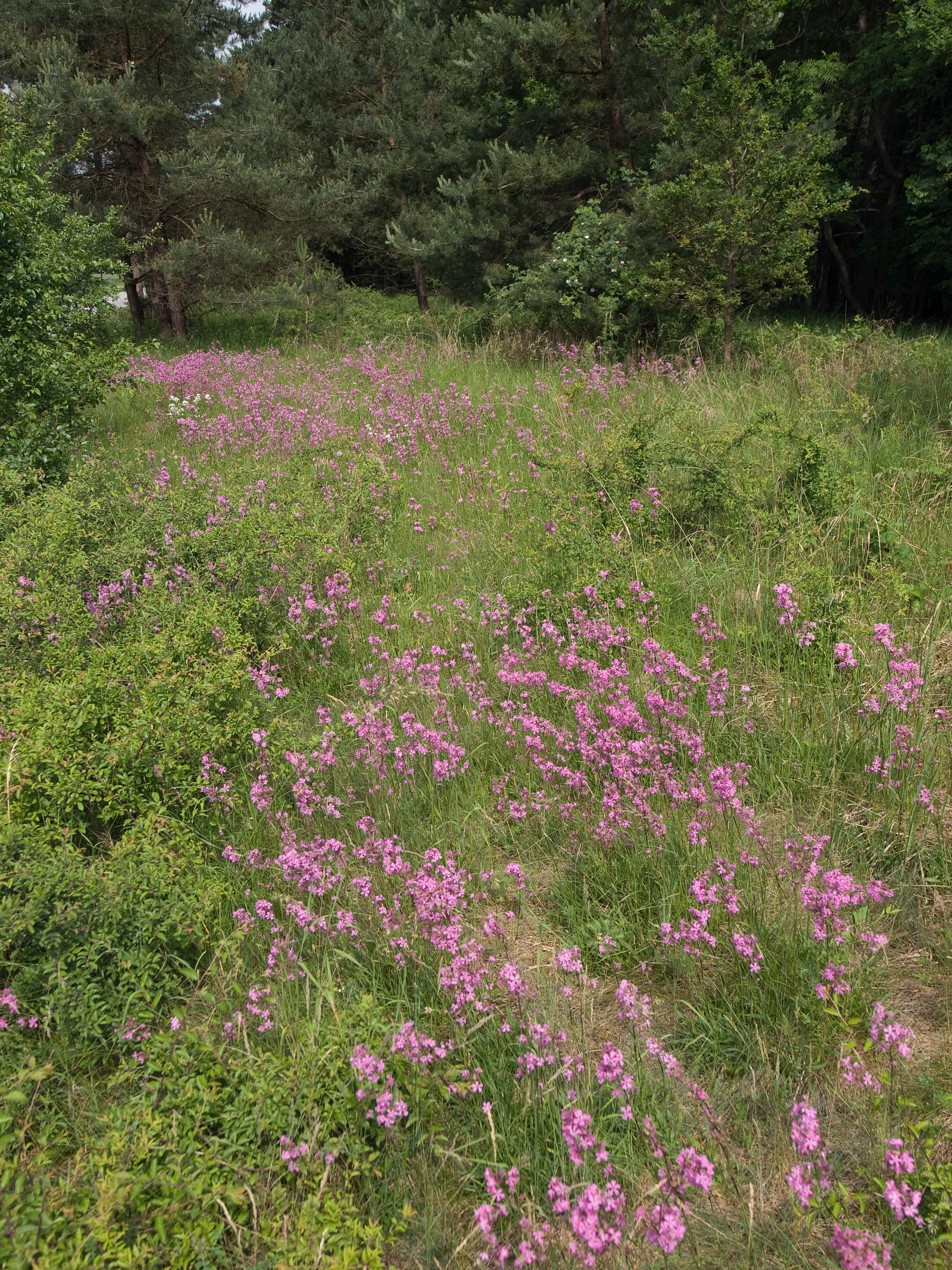 Viscaria vulgaris Syn. Silene viscaria; Picture taken near Daßfeld-Siegenburg/Bavaria